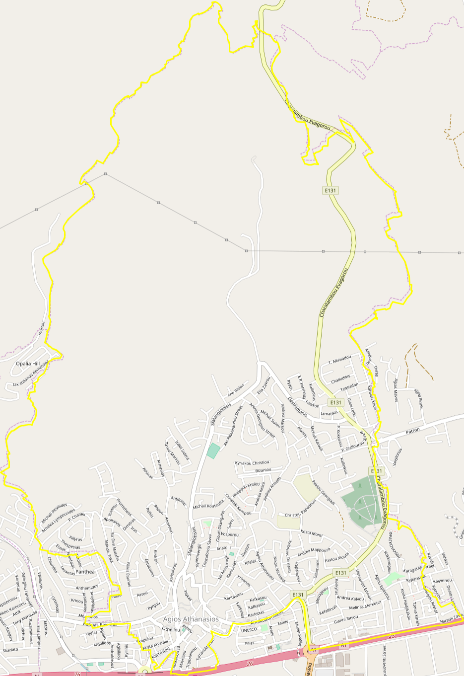 Map of Ayios Athanasios (Agios Athanasios).